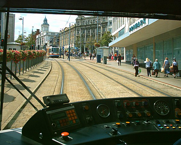 Sheffield Supertram driving cab.